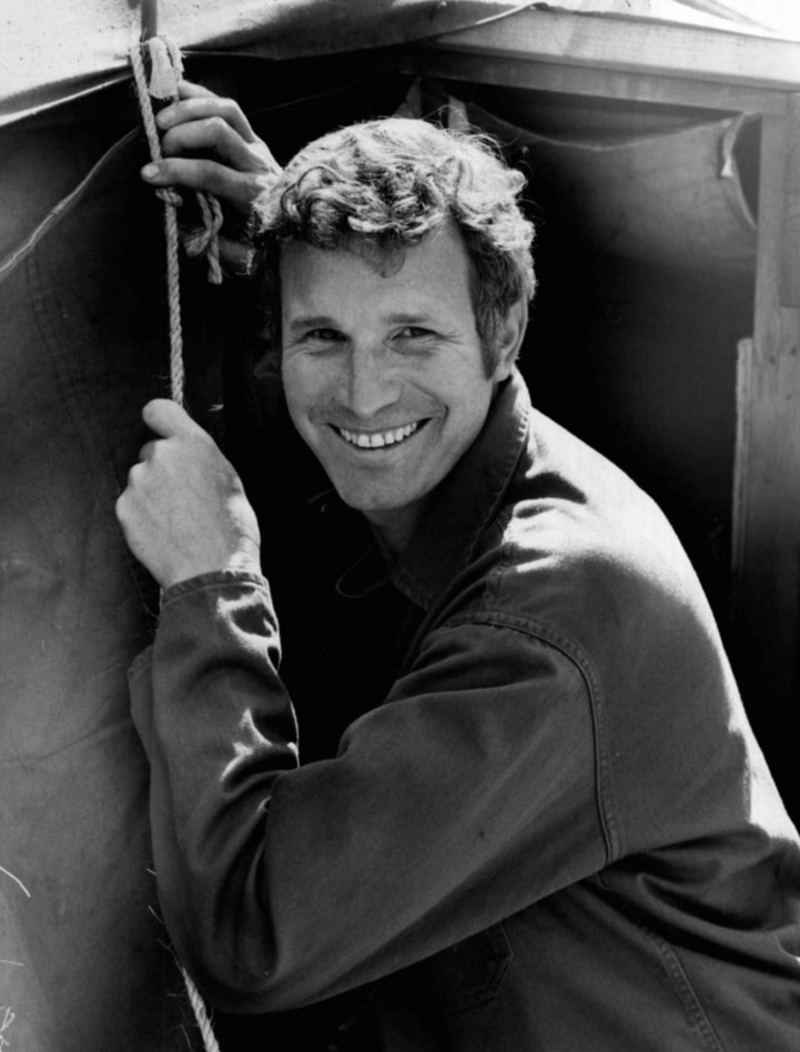 Photo of Wayne Rogers as Trapper John from the premiere of the television program M*A*S*H.